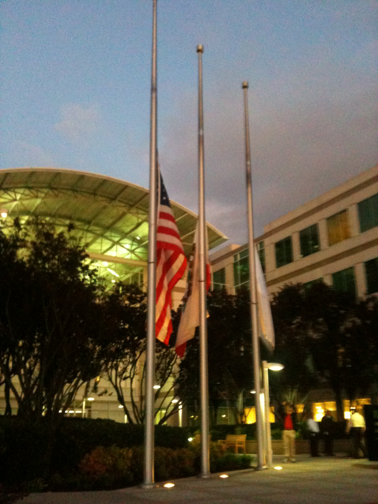 Three flags (American, State of California, Apple Inc.) flown at half-mast on the evening of the death of co-founder Steve Jobs.